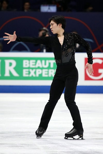 Photos – World Championships 2018 – Men (Keiji TANAKA JPN – 13th Place)